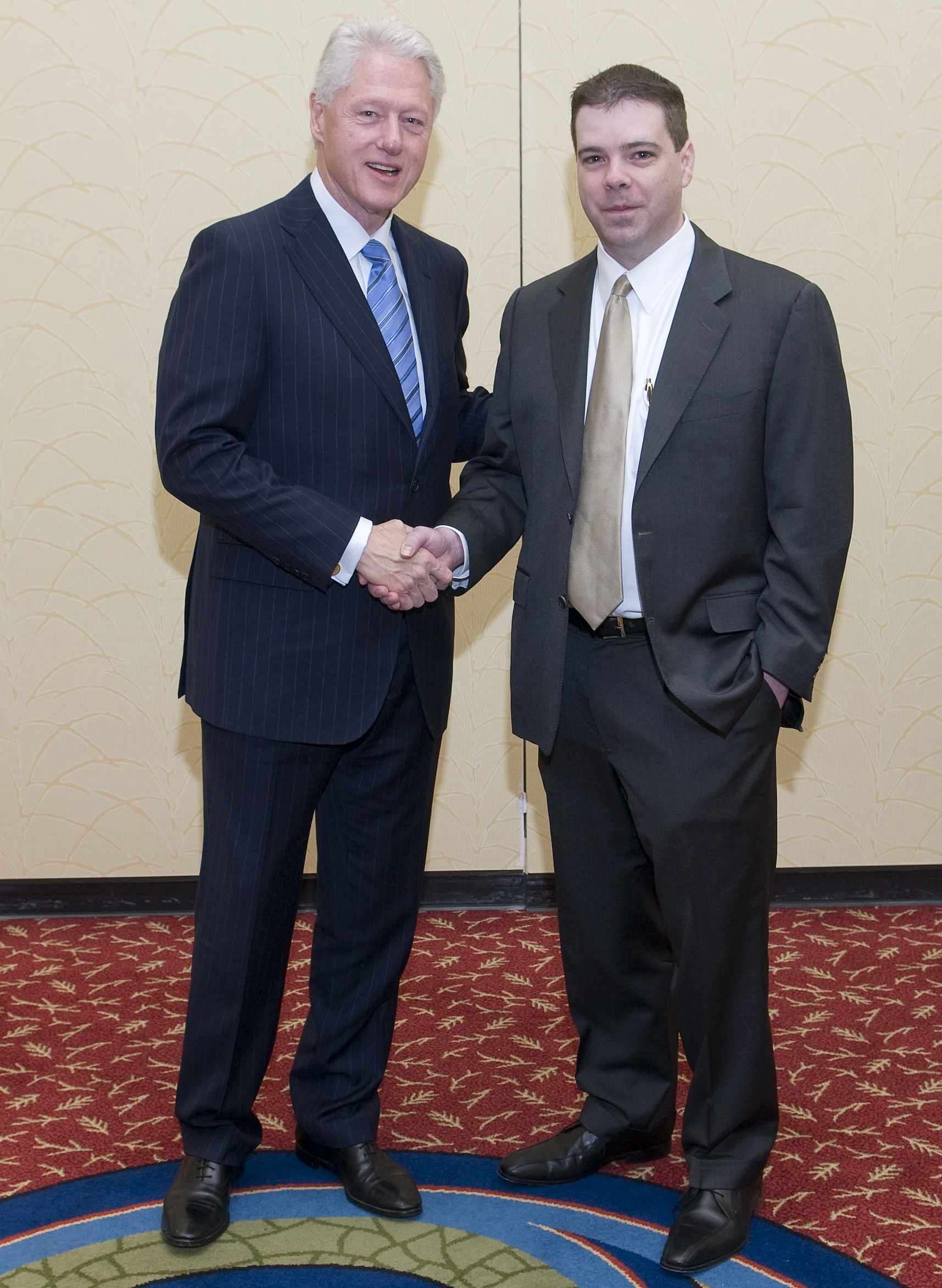 Jeffrey Peterson is a business figure I photographed during a reception with President Bill Clinton at the Princess Hotel & Resort in Arizona.